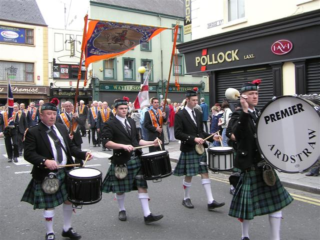 12th July Celebrations, Omagh (45) Ardstraw Pipe band is passing by